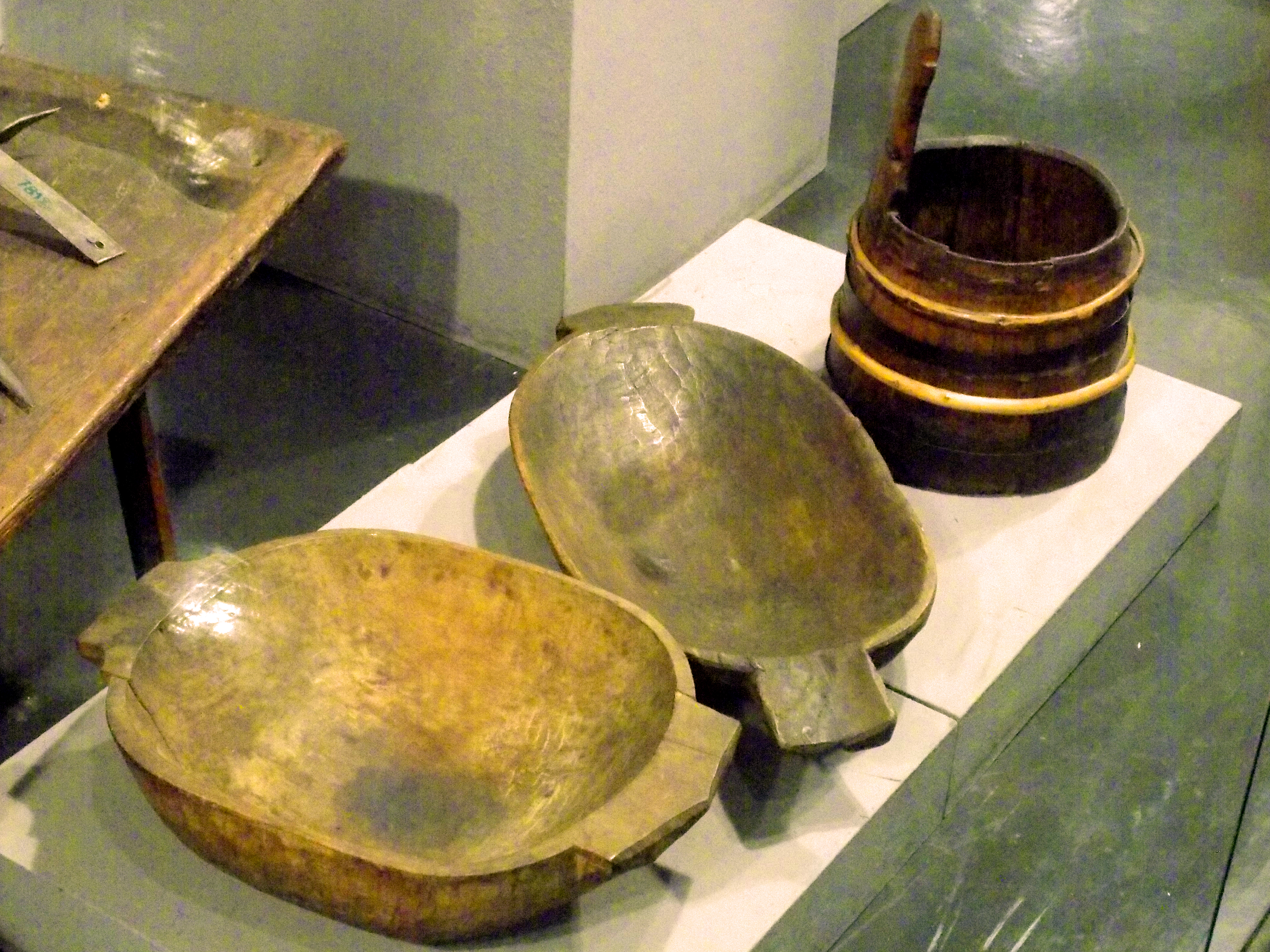 Traditional wooden bowls for spilling milk and storing cream (Etnographic Museum in Belgrade)